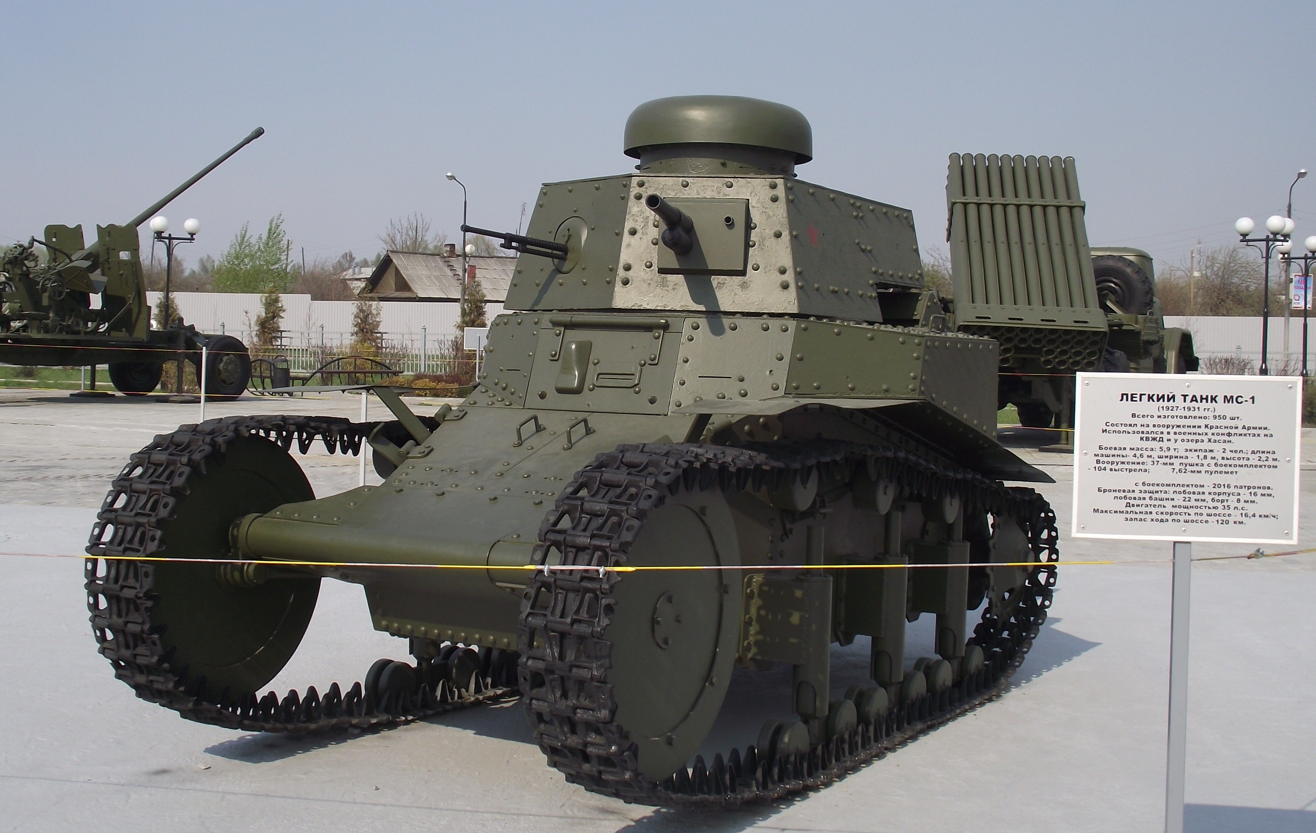 Soviet tank T-18 (also known as MS-1) in Verkhnyaya Pyshma Tank Museum, Russia